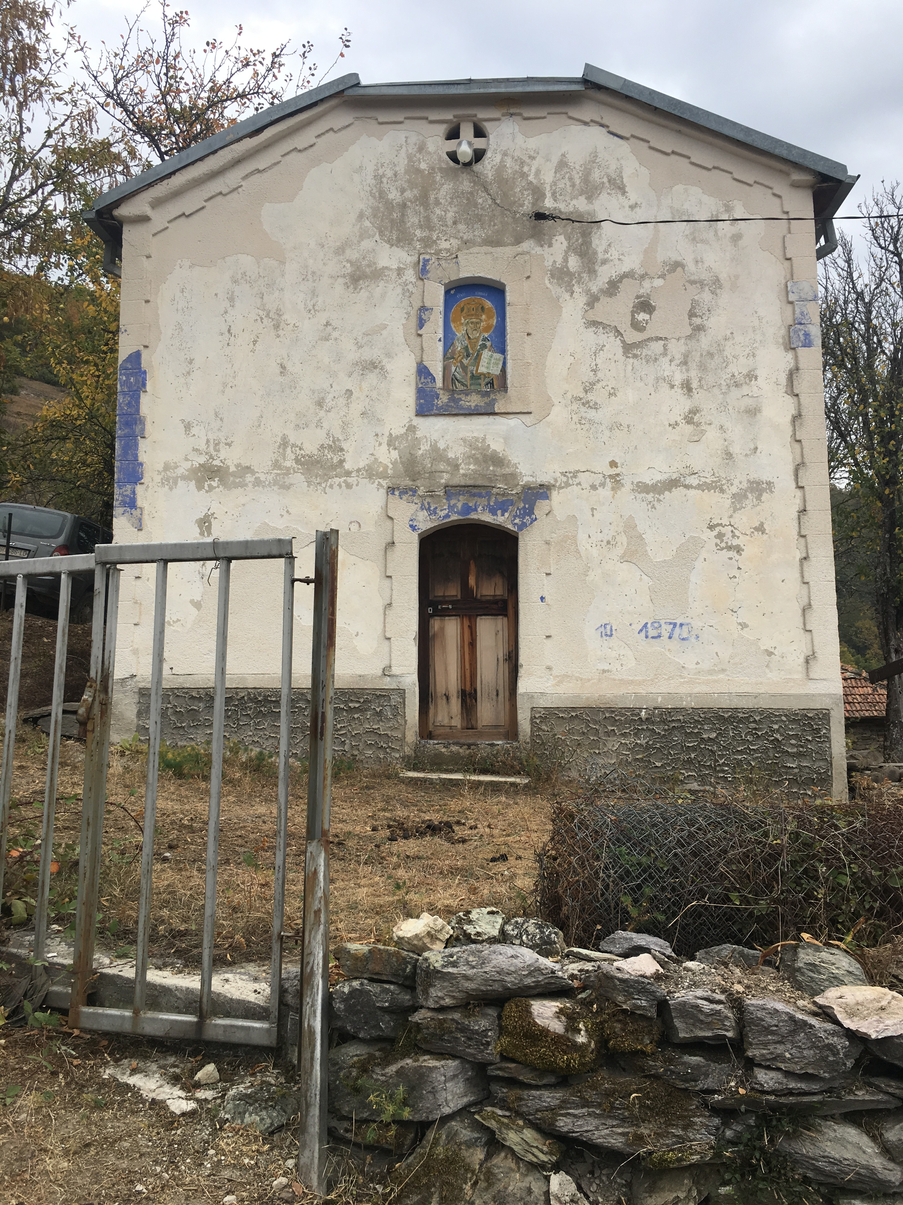 Wikiexpedition to Kopačka